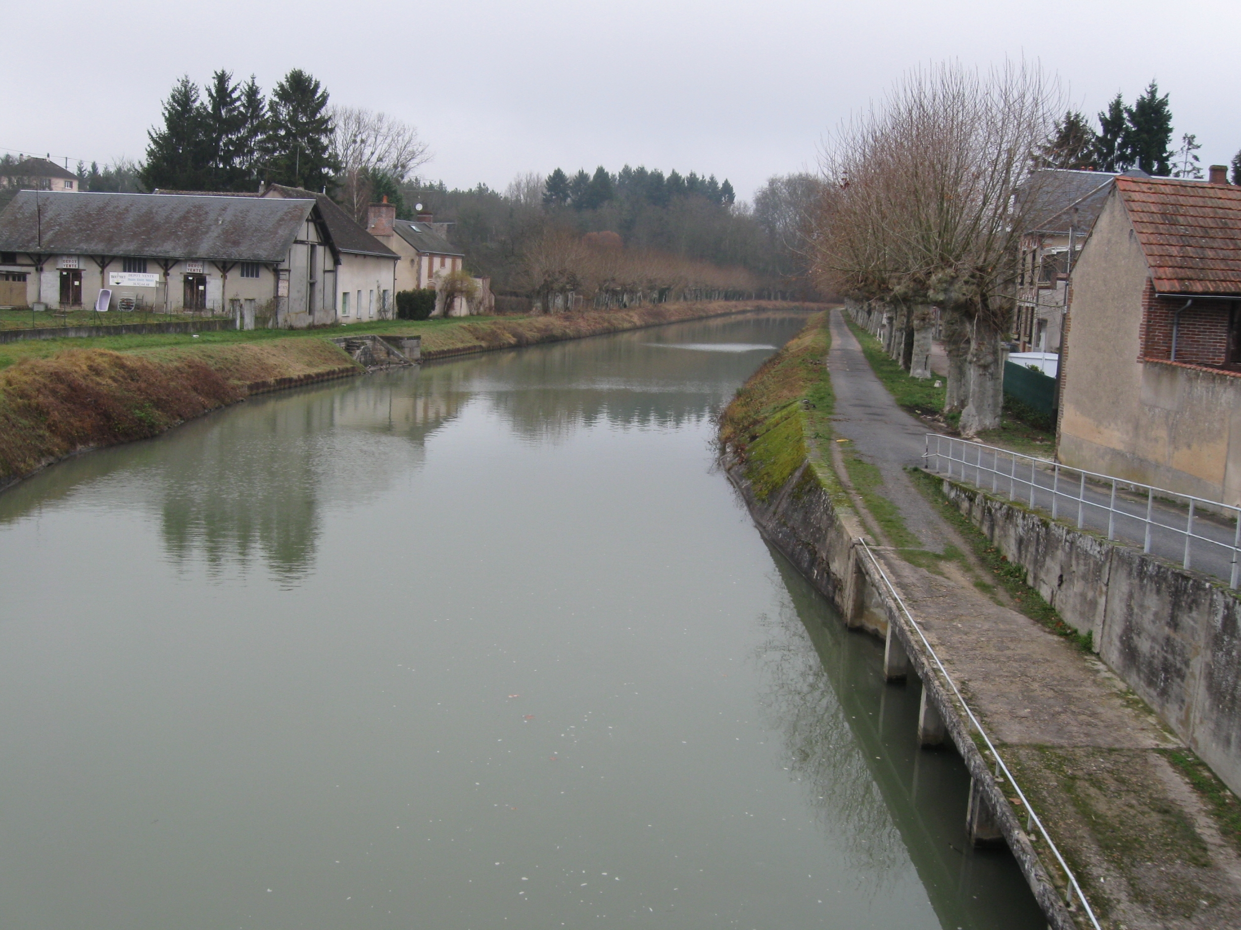 Canal de Briare at Sainte-Geneviève-des-Bois, looking downstream from the bridge on the Faubourg du Puyrault road. This bridge is split lengthwise between Sainte-Geneviève-des-Bois and Châtillon-Coligny : the camera here is on Châtillon-Coligny's side and so are the next 33 m of water and land. Beyond that, it's Sainte-Geneviève-des-Bois again.